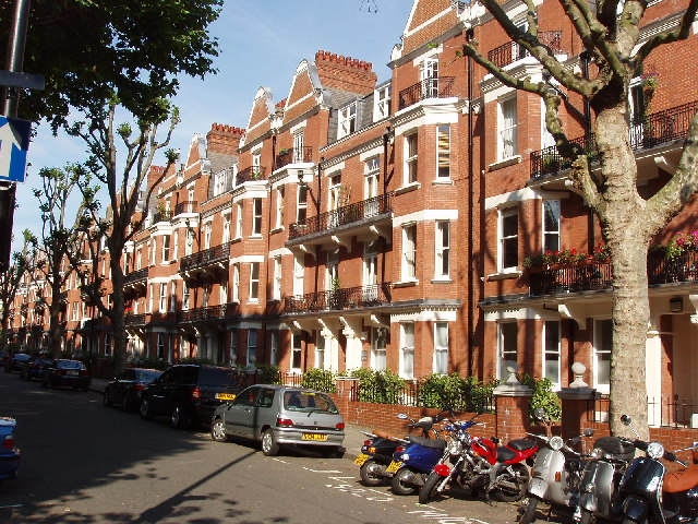 Mansion flats in Maida Vale. In this area are many blocks of flats with "mansions" in their names.